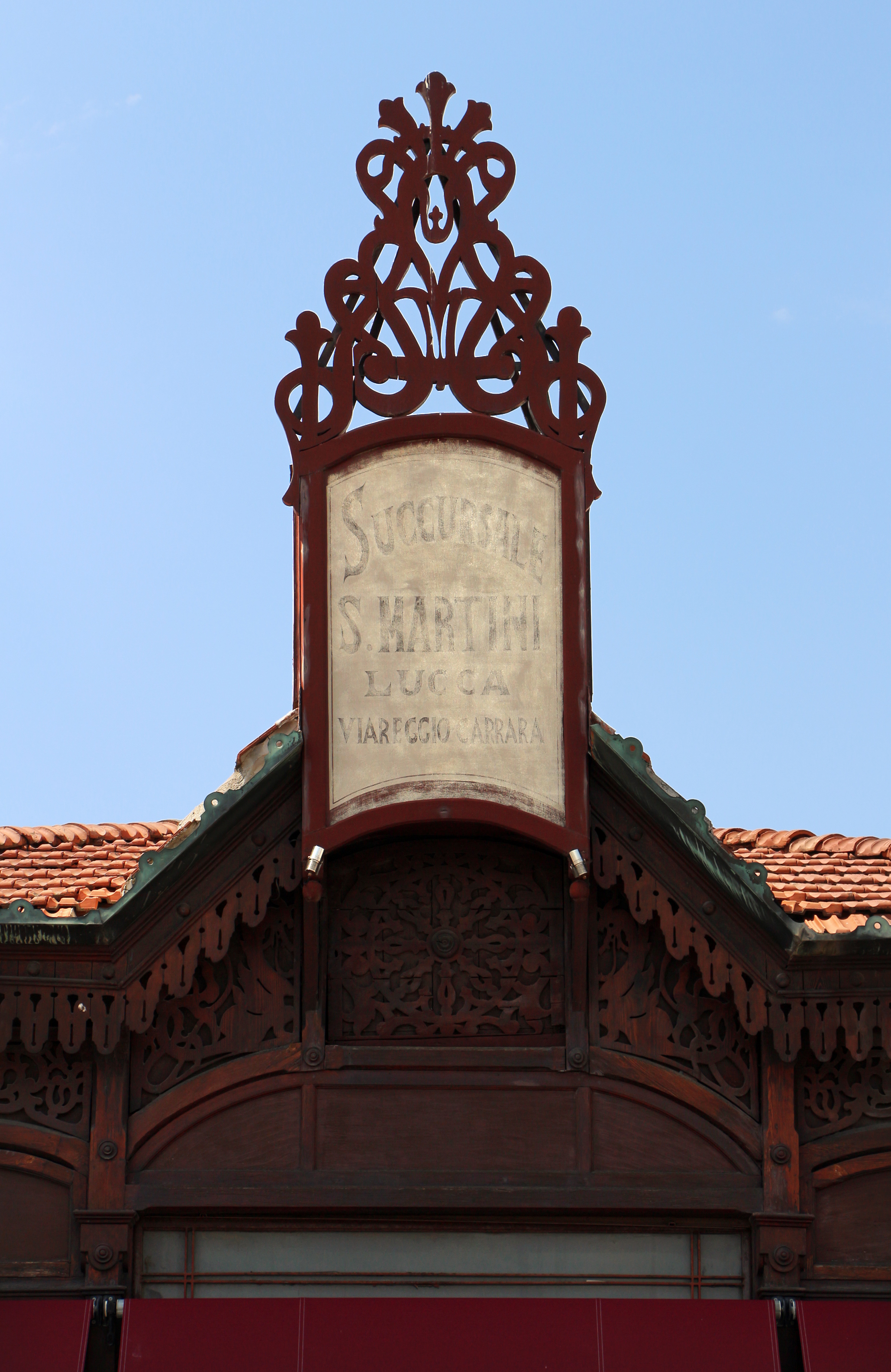 Viareggio